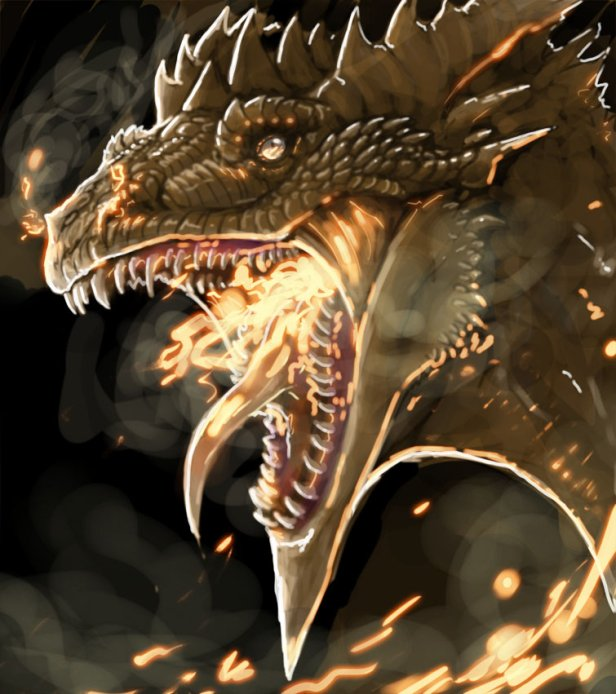 Dragon